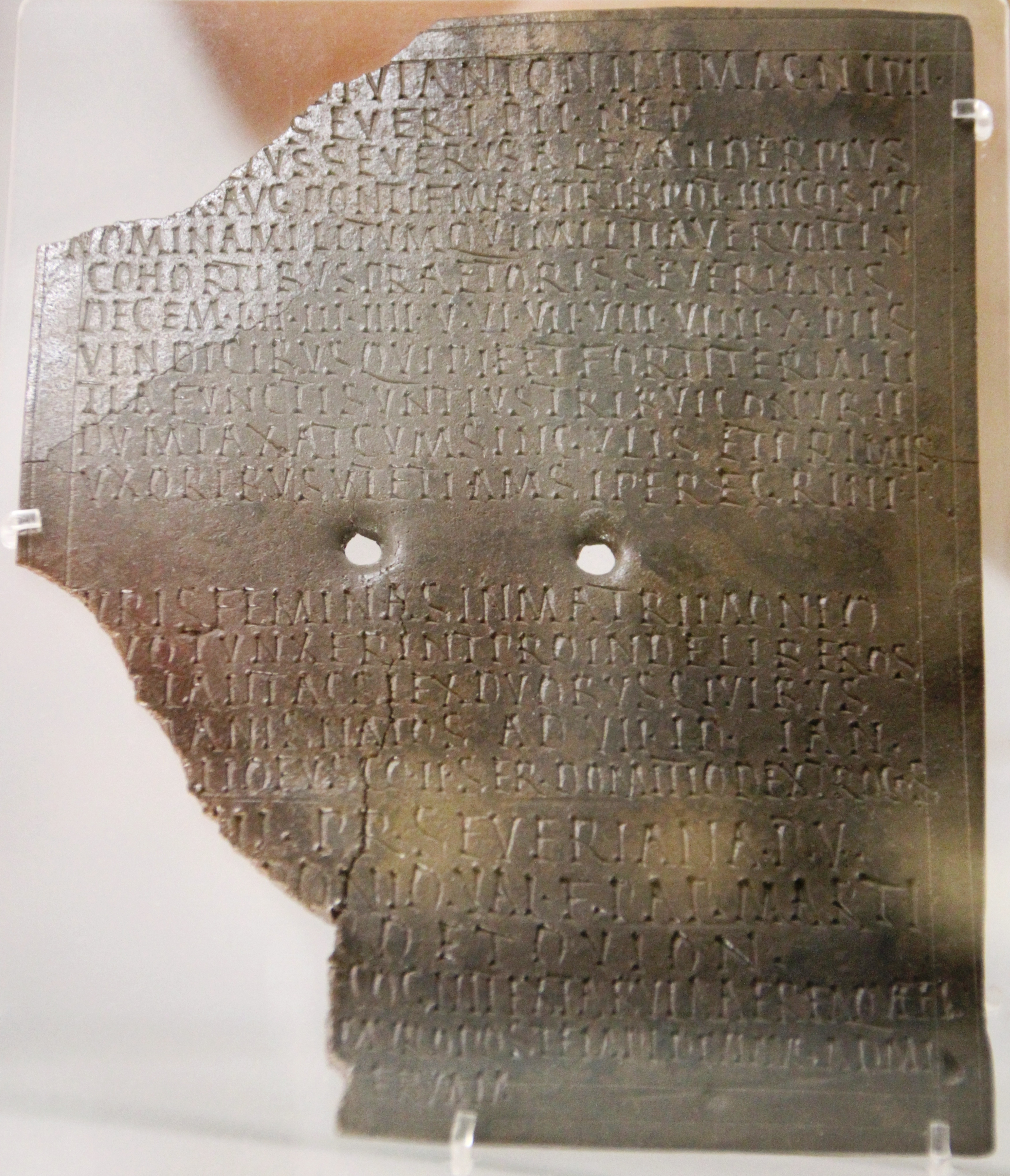 Ancient Roman military discharge document (diploma) issued in Aquincum, present-day Budapest, Hungary.